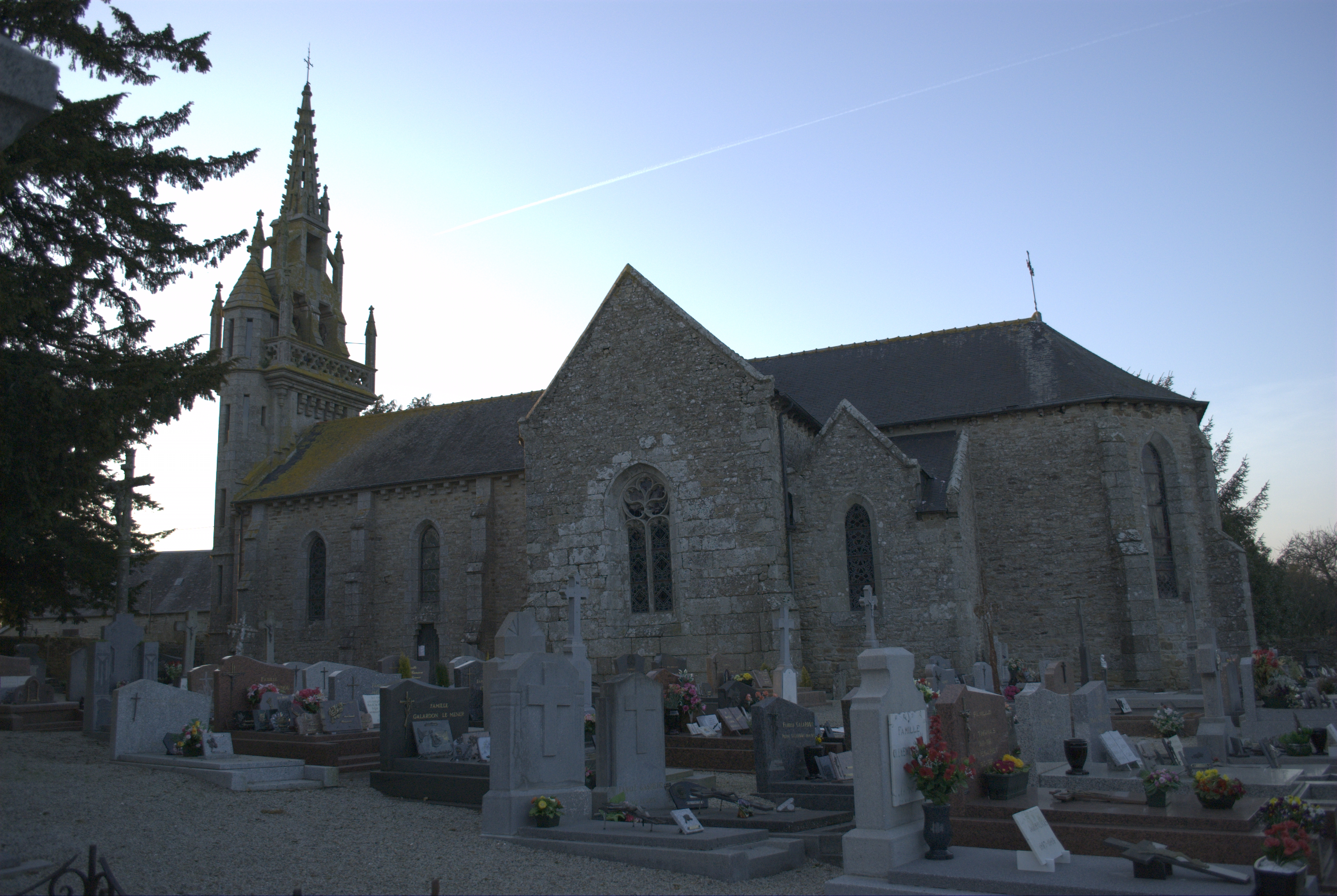 Church of Saint-Connan in the village of Saint-Connan(France).